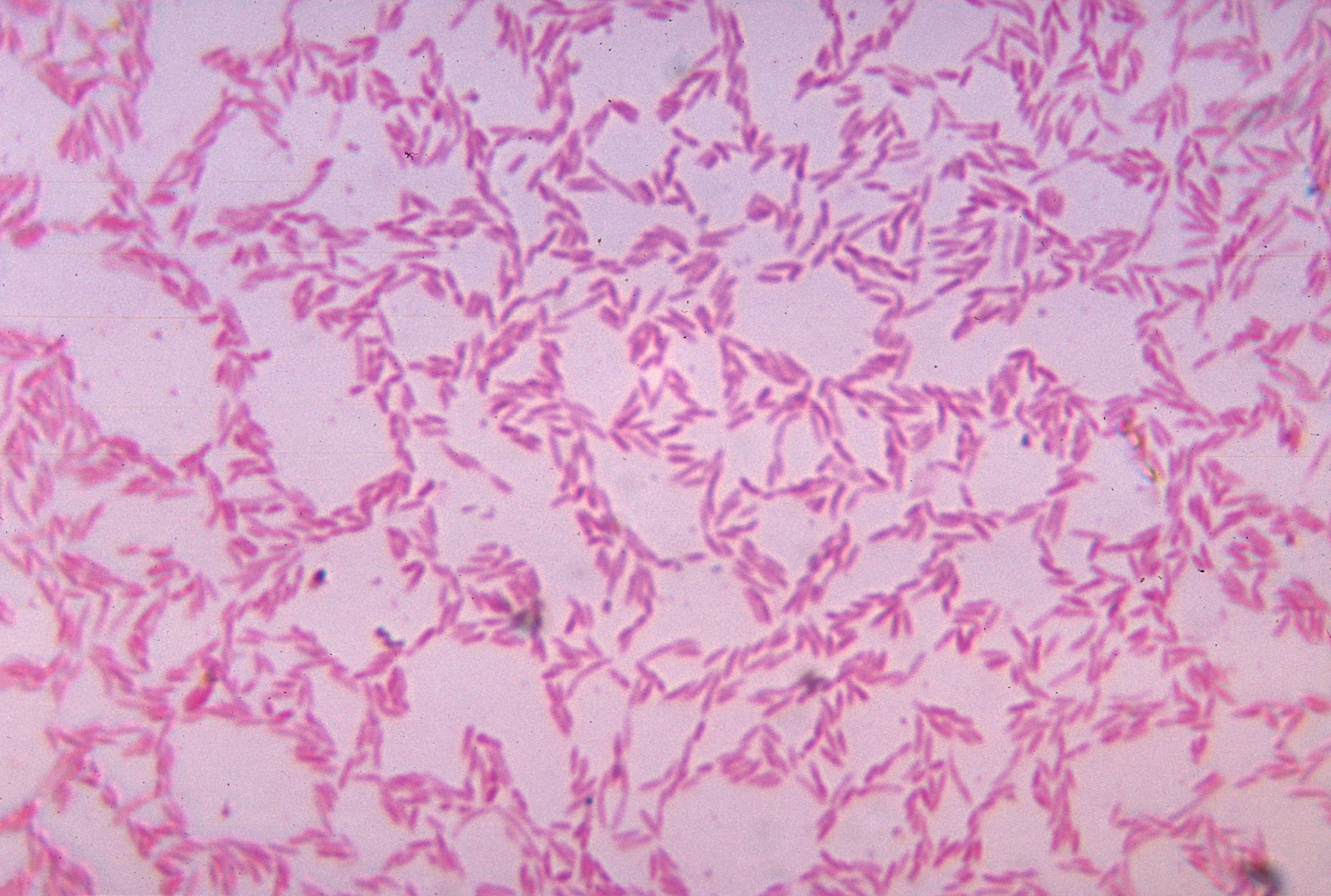 Bacteroides biacutis—one of many commensal anaerobic Bacteroides spp. in the gastrointestinal tract—cultured in blood agar medium for 48 hours. Obtained from the CDC Public Health Image Library. Image credit: CDC/Dr. V.R. Dowell, Jr. (PHIL #3087), 1972.